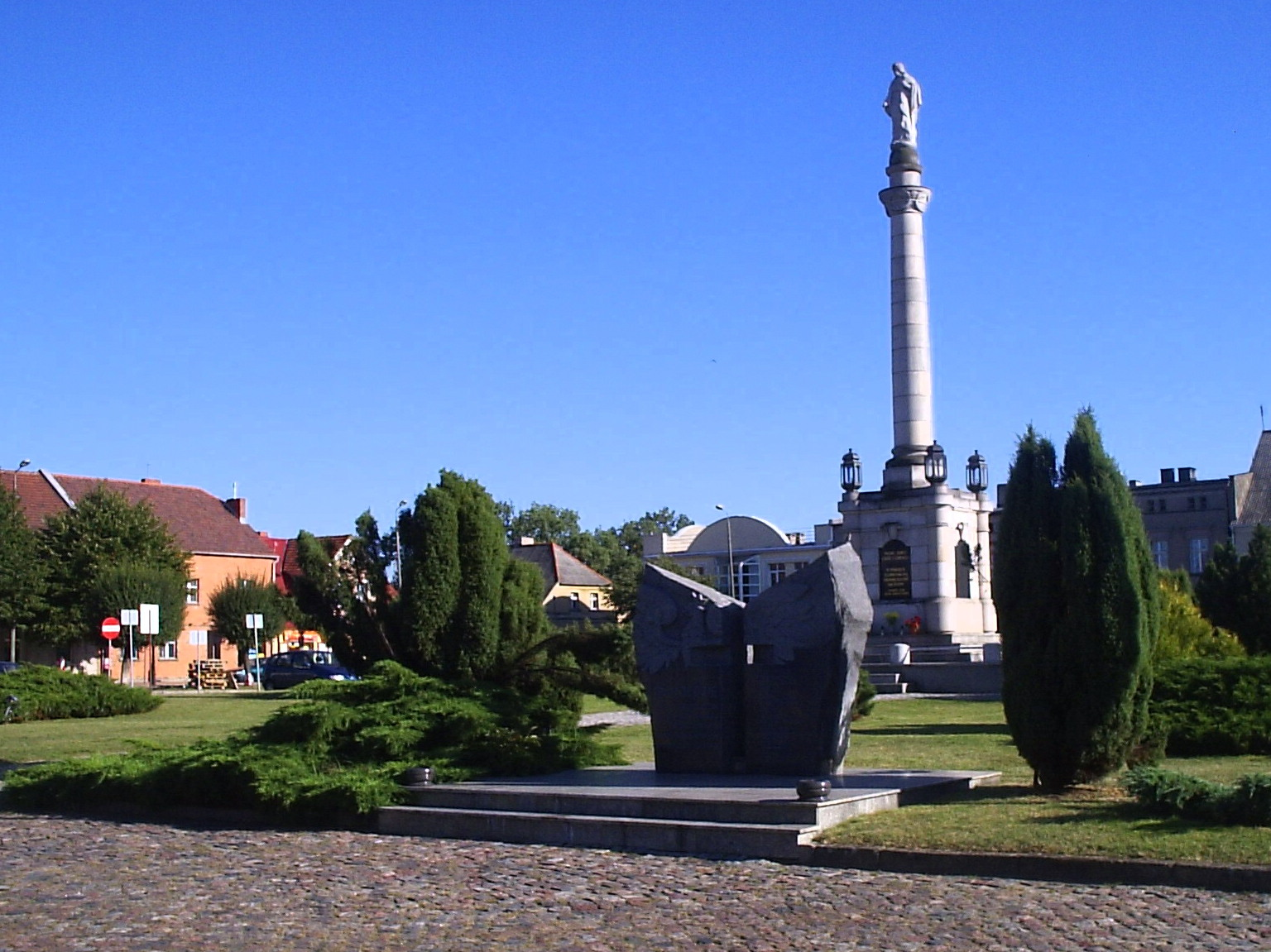 Market Square in Gostyń, Poland